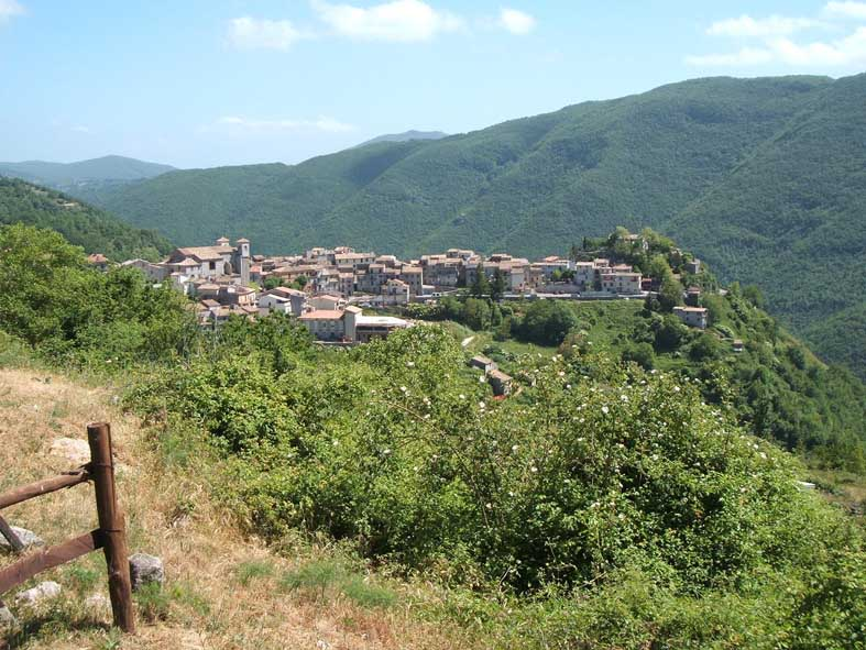 Jenne RM Italia